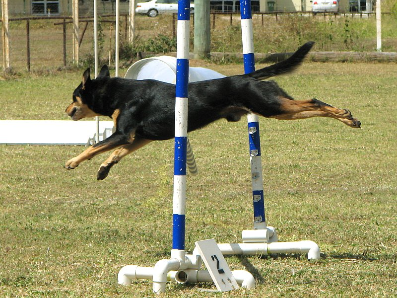 Kelpie in agility competition